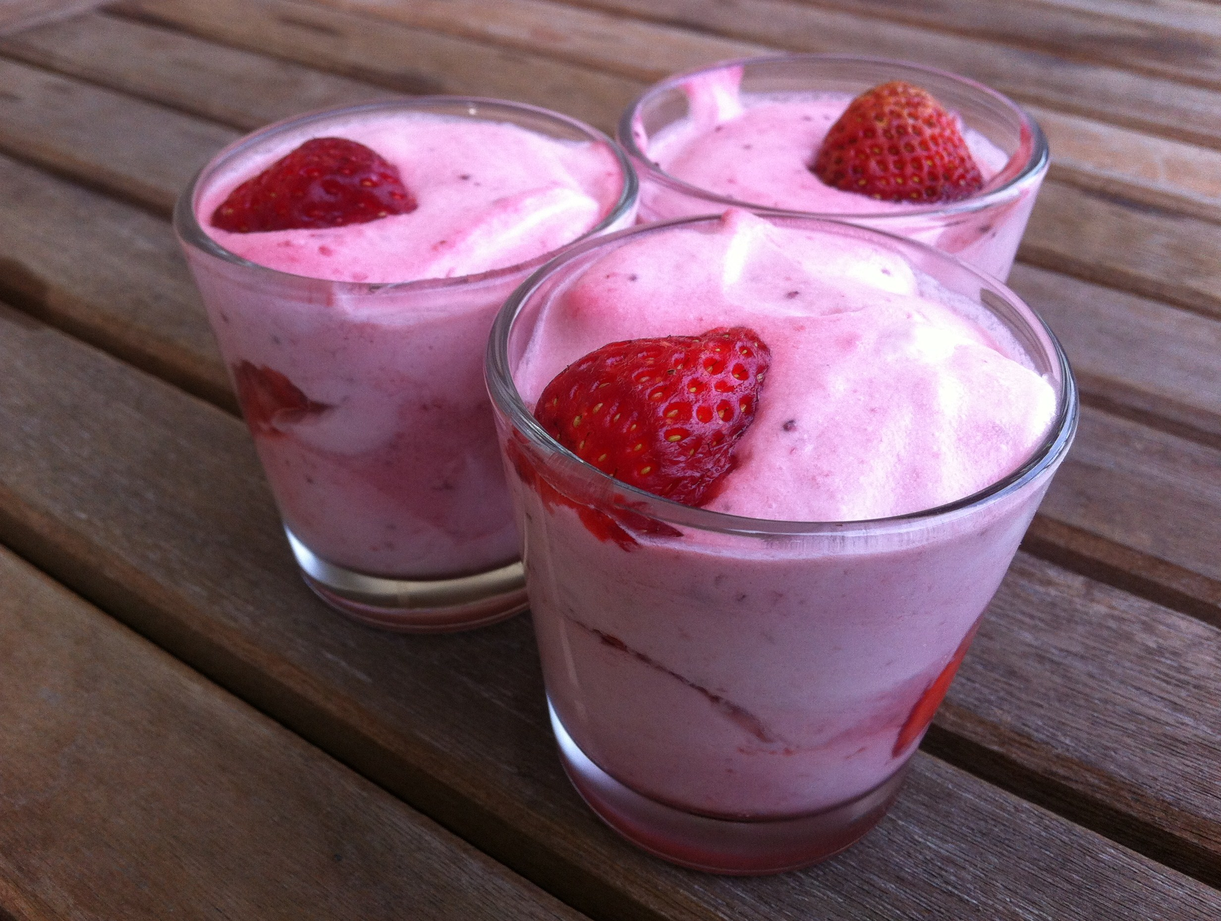 Strawberry mousse.